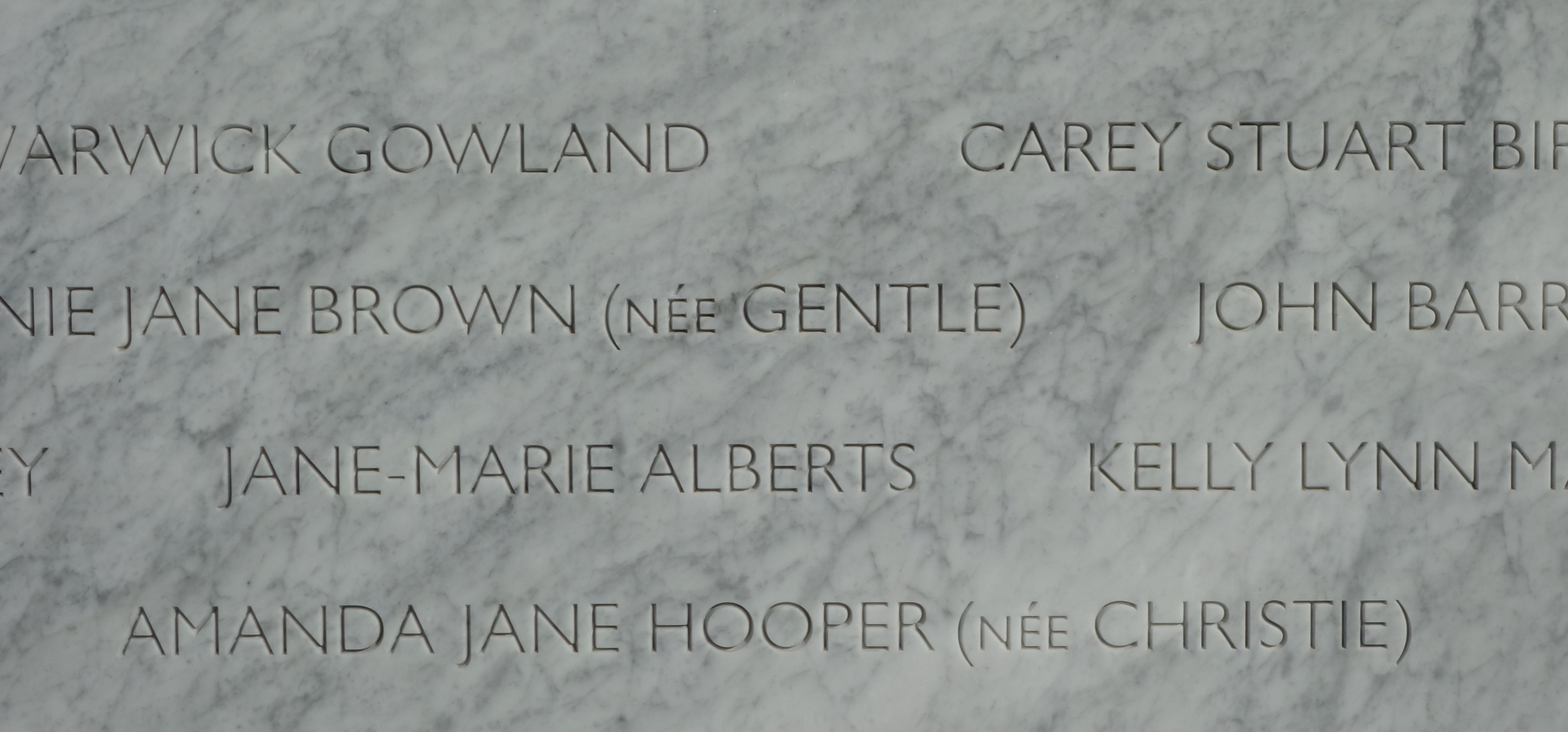 Canterbury Earthquake National Memorial – dedication service